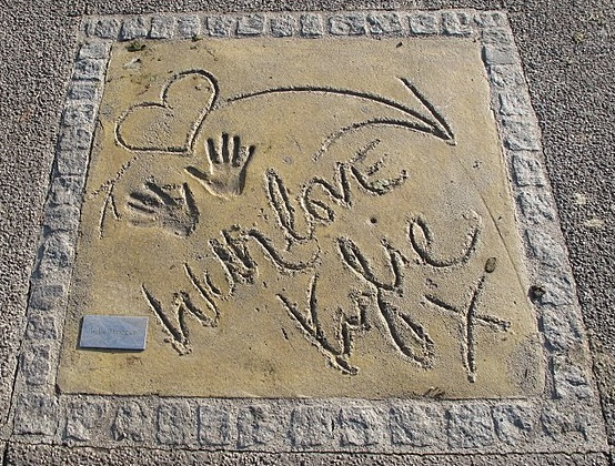 Handprints of Kylie Minogue in Olympiapark, Munich, Germany.